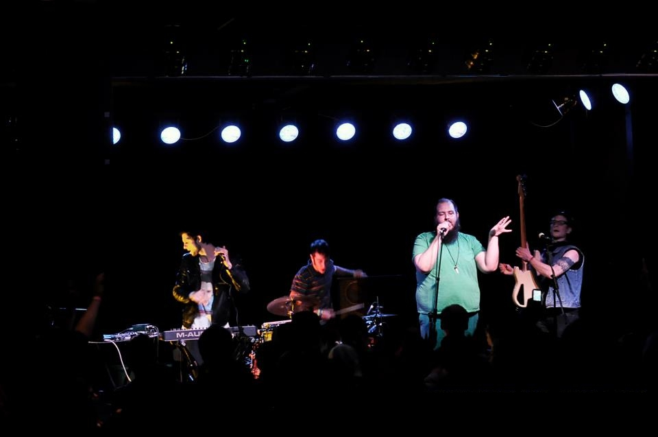 Stepdad live in 2011